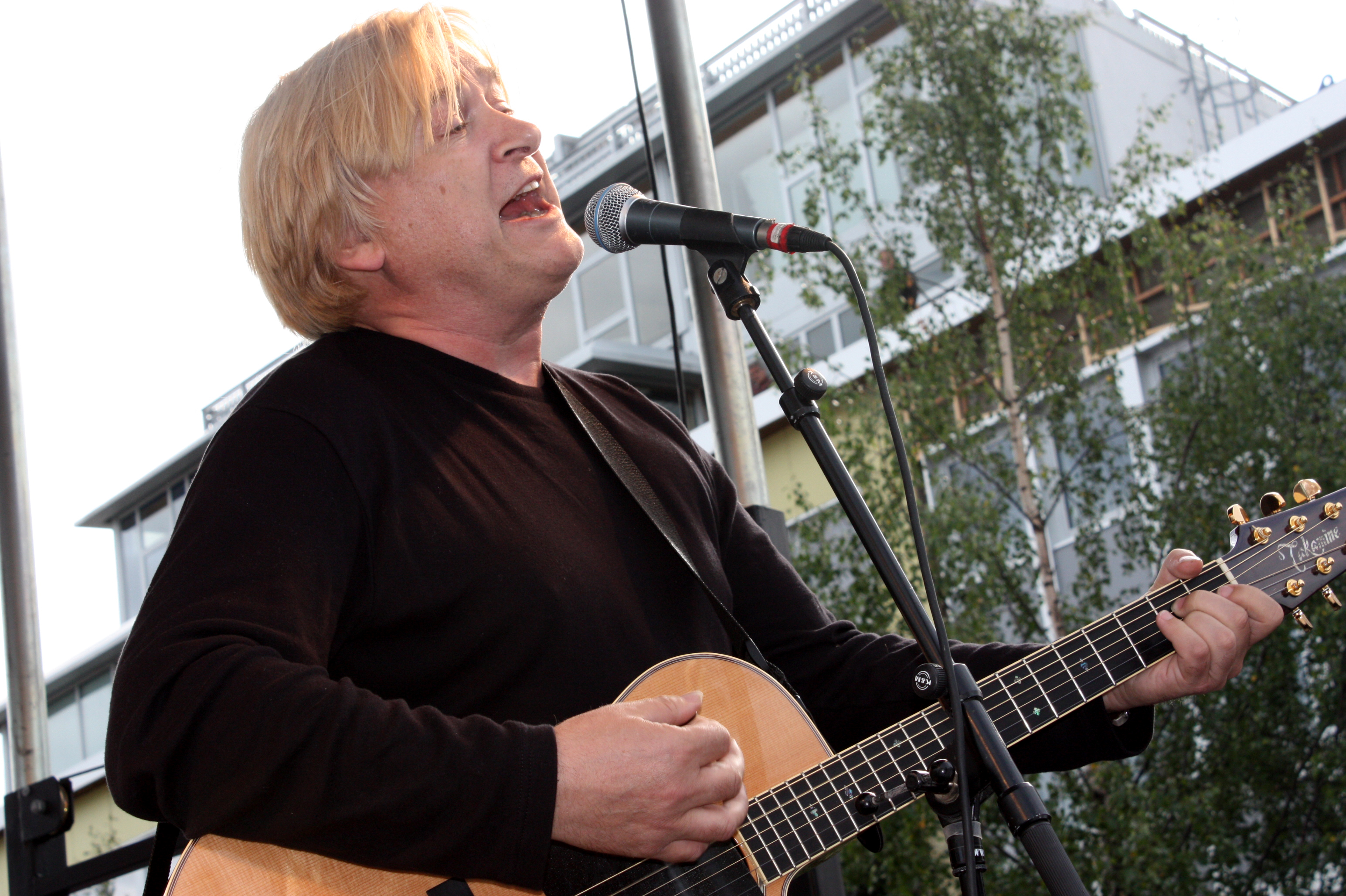 Jørn Hoel playing at meeting for The Norwegian Labour Party in Tromsø, Norway.